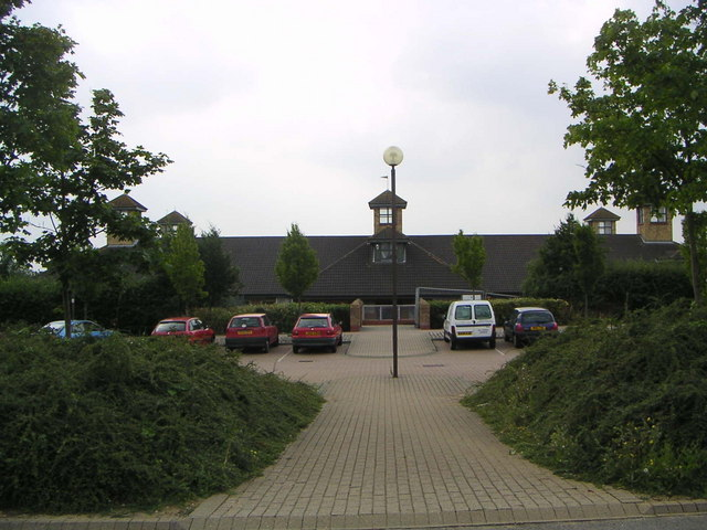 Caroline Haslett Combined School. Located on Shenley Lodge, the school is identifiable by its 5 glassed lookout towers. The school's crest also features one of the lookout towers.